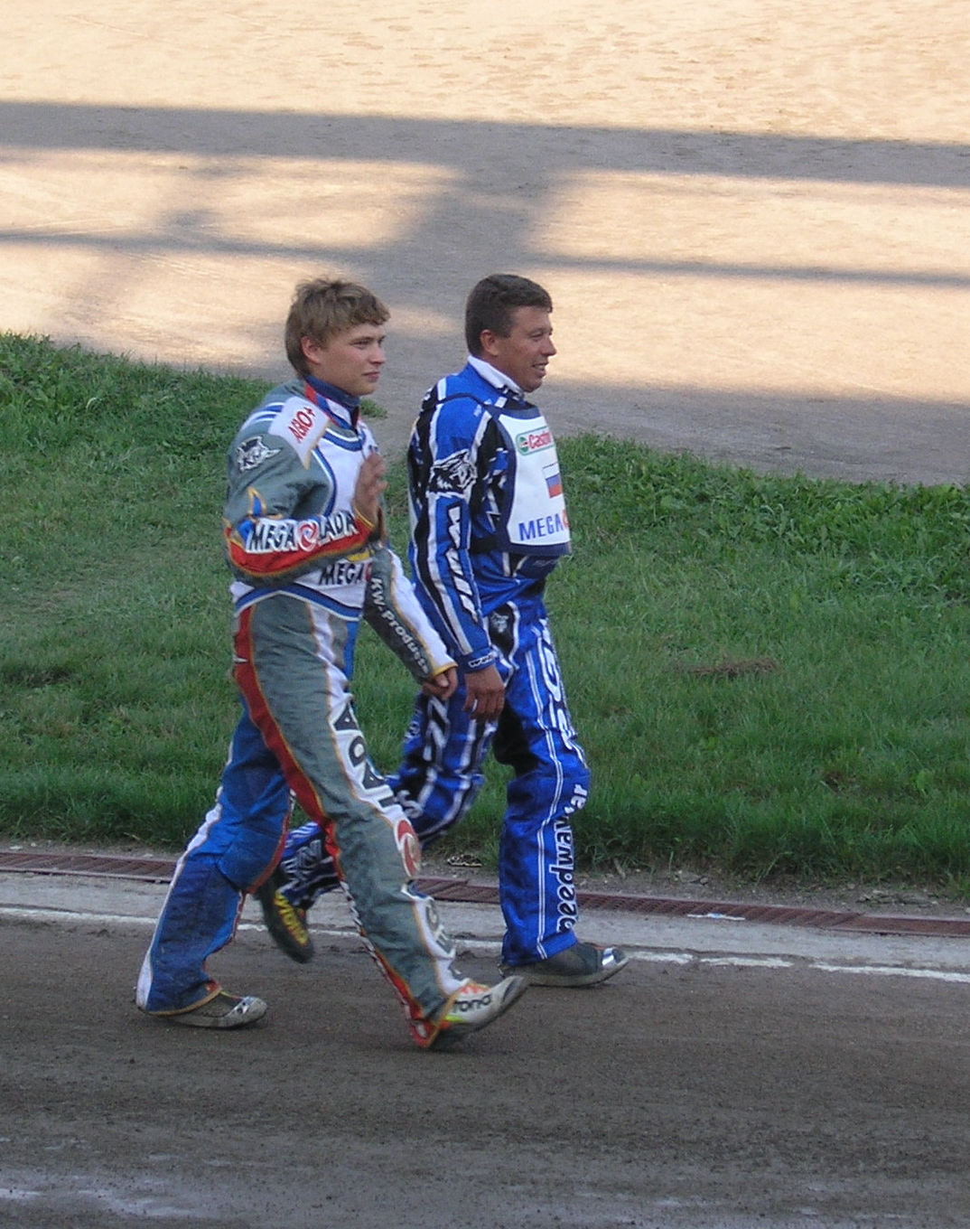 Speedway riders: Emil Sajfutdinov (left) and Oleg Kurguskin, Mega-Lada, Togliatti, Russia